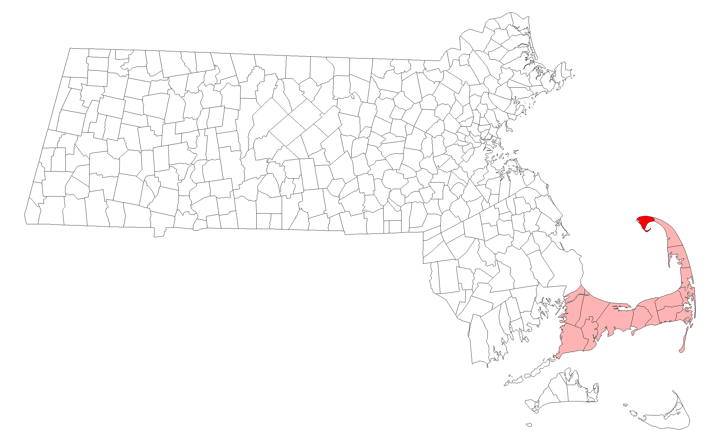 Location of Provincetown in Barnstable County, MA.